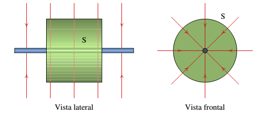 Linhas